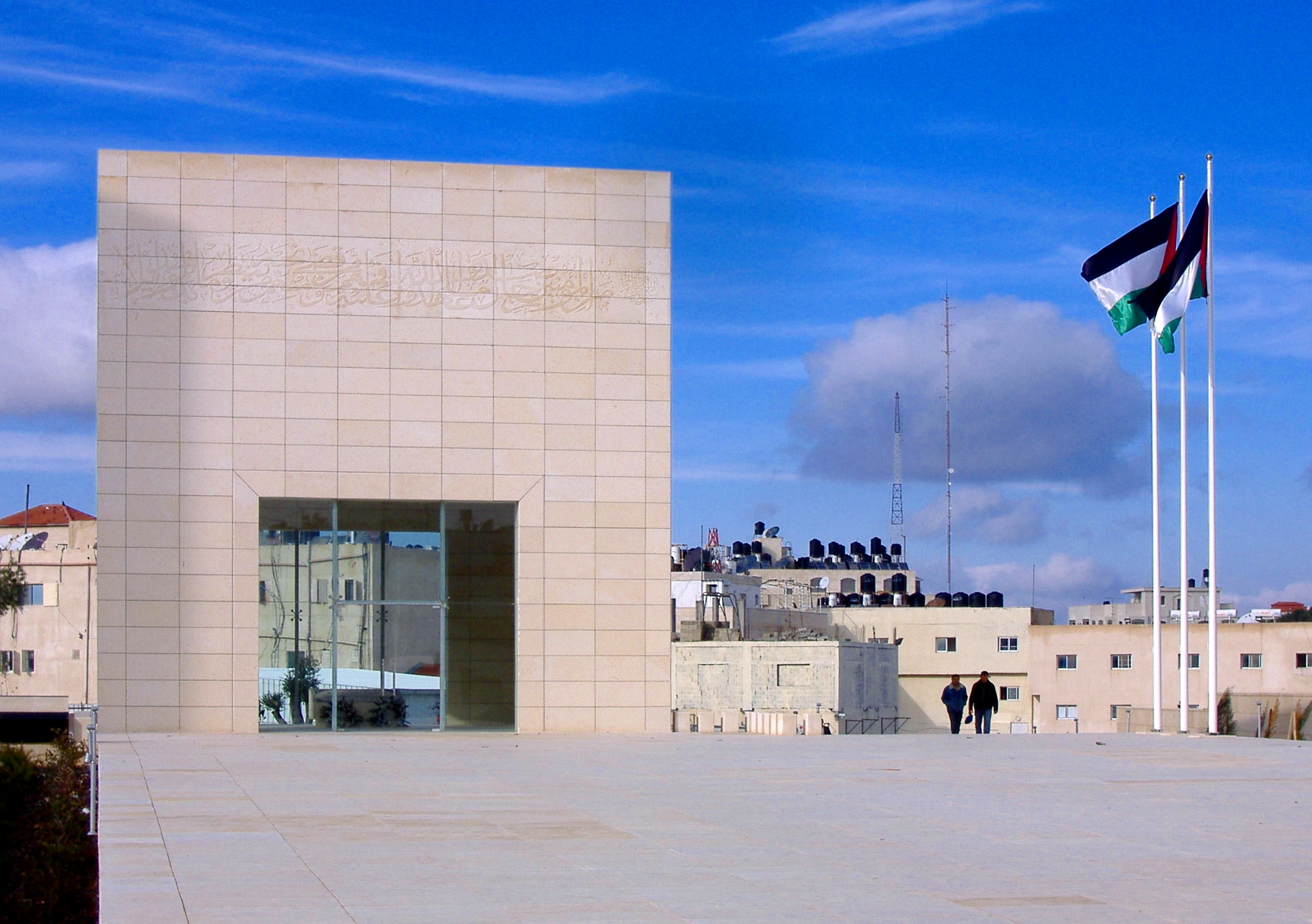 Mausoleum of Yasser Arafat (Mukataa, Ramallah)